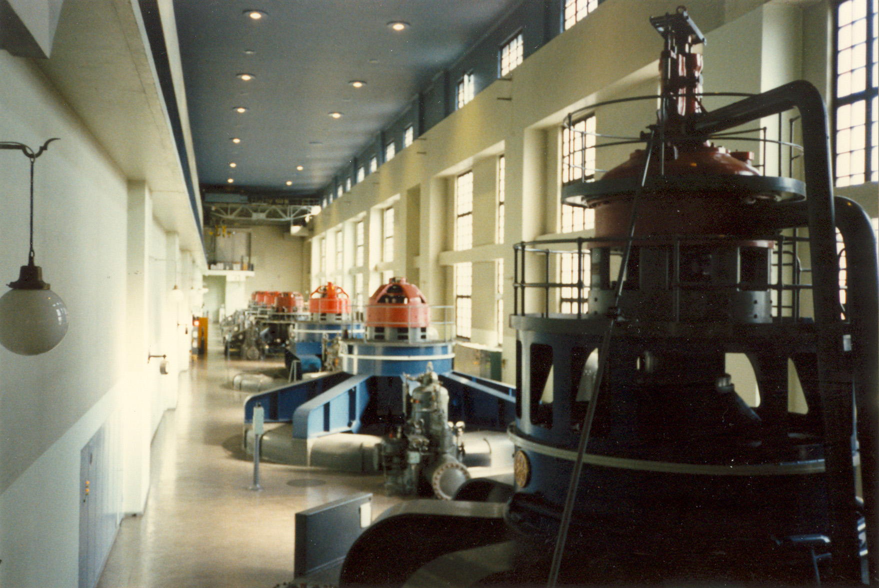 Interior of Imatrankoski hydroelectric power plant in Imatra, Finland